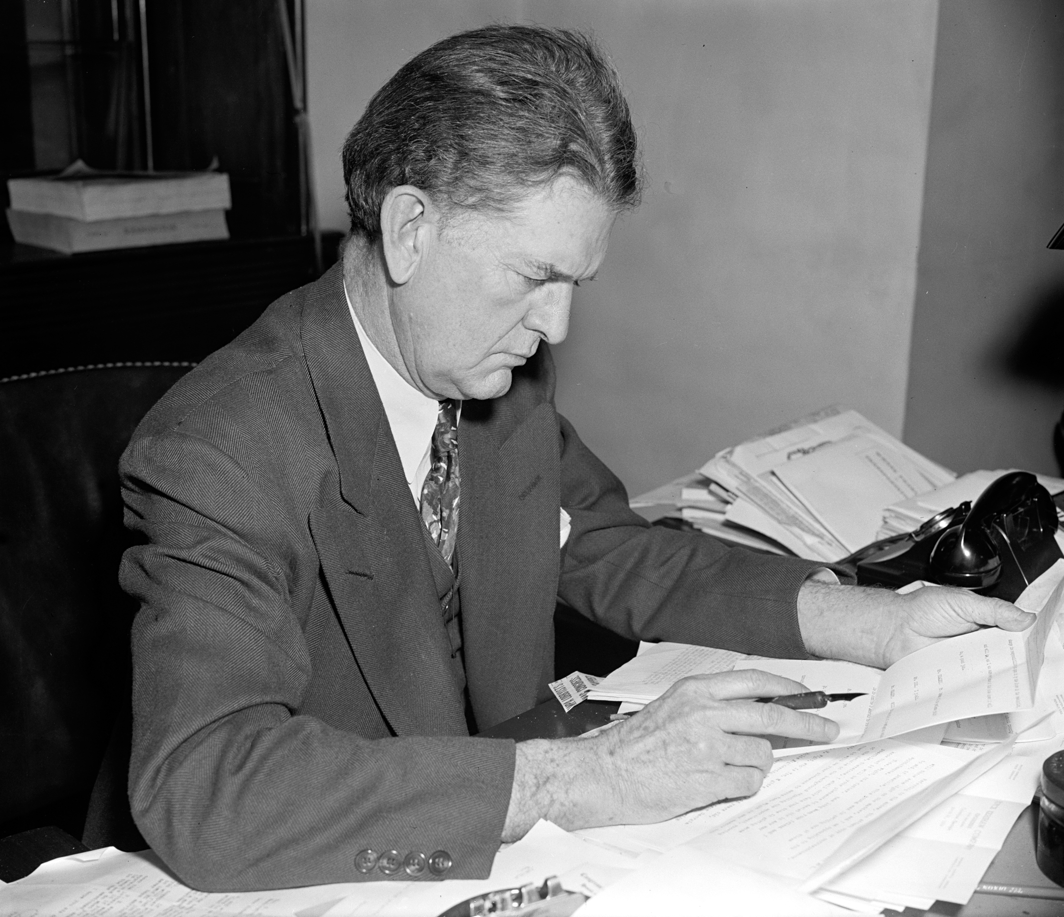 Edward E. Cox, US Representative from Georgia